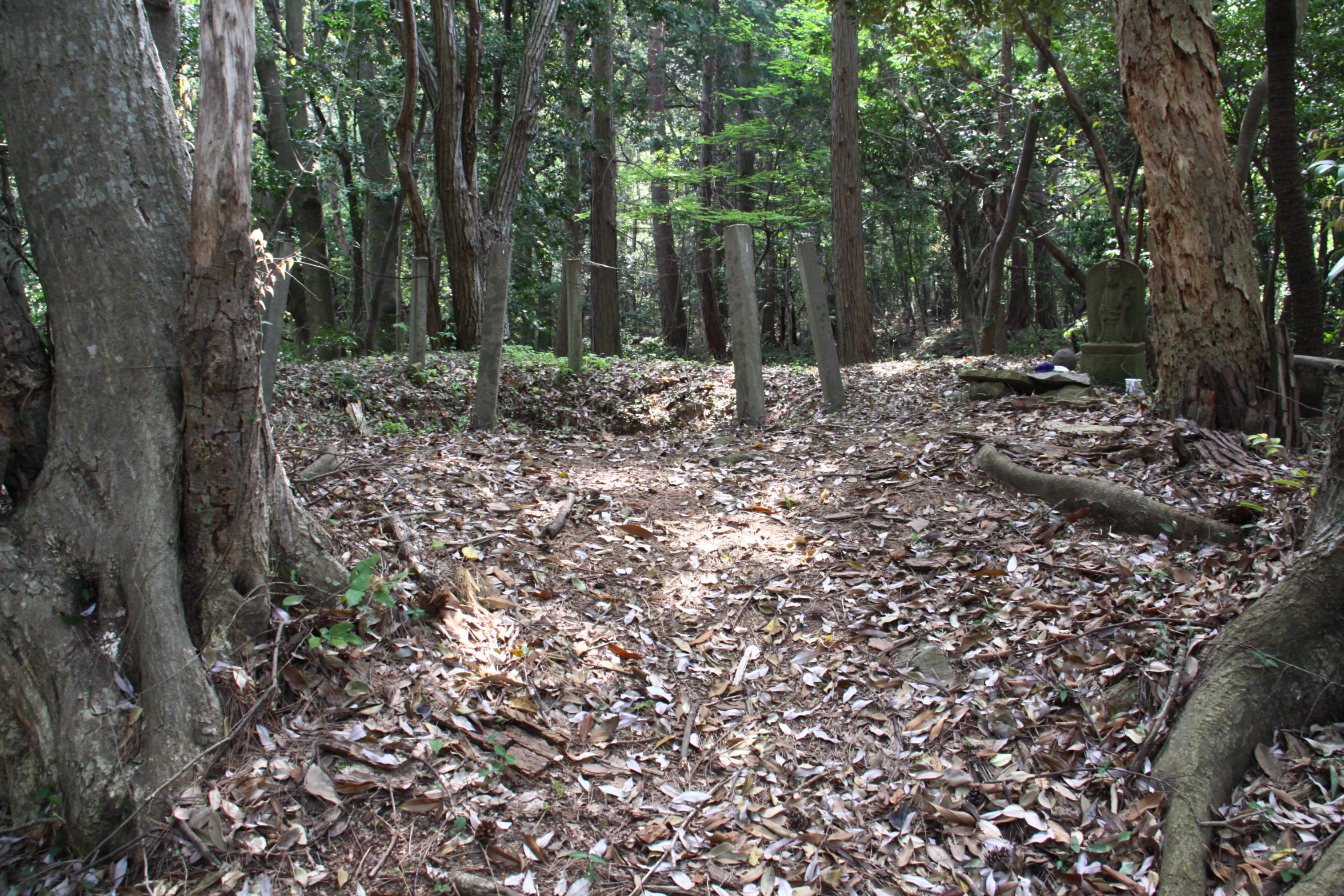 Kyouduka in Shitori-jinja